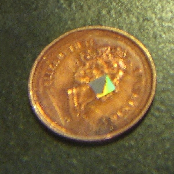 A modified version of File:Smart_card_chip_on_penny.JPG, with text removed.